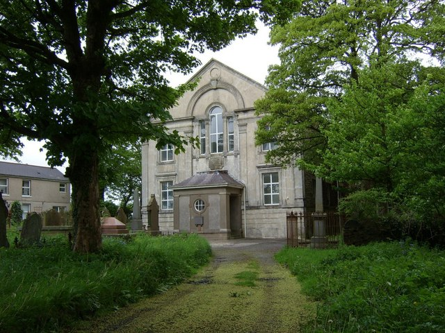 Mynydd-bach chapel. The old Independent Chapel on the common at Mynydd-bach near Llangyfelach, Swansea